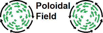 This is the poloidal field in a reverse field pinch. Notice that the swirling motion of the field, decreases as you move outward from the center. Other information This is the poloidal field in a reverse field pinch. Notice that the swirling motion of the field, decreases as you move outward from the center.